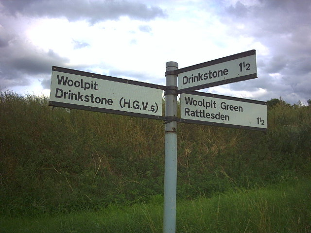 Road sign near Woolpit Green. The direct road to Drinkstone goes over a bridge with an 8 ton weight limit.